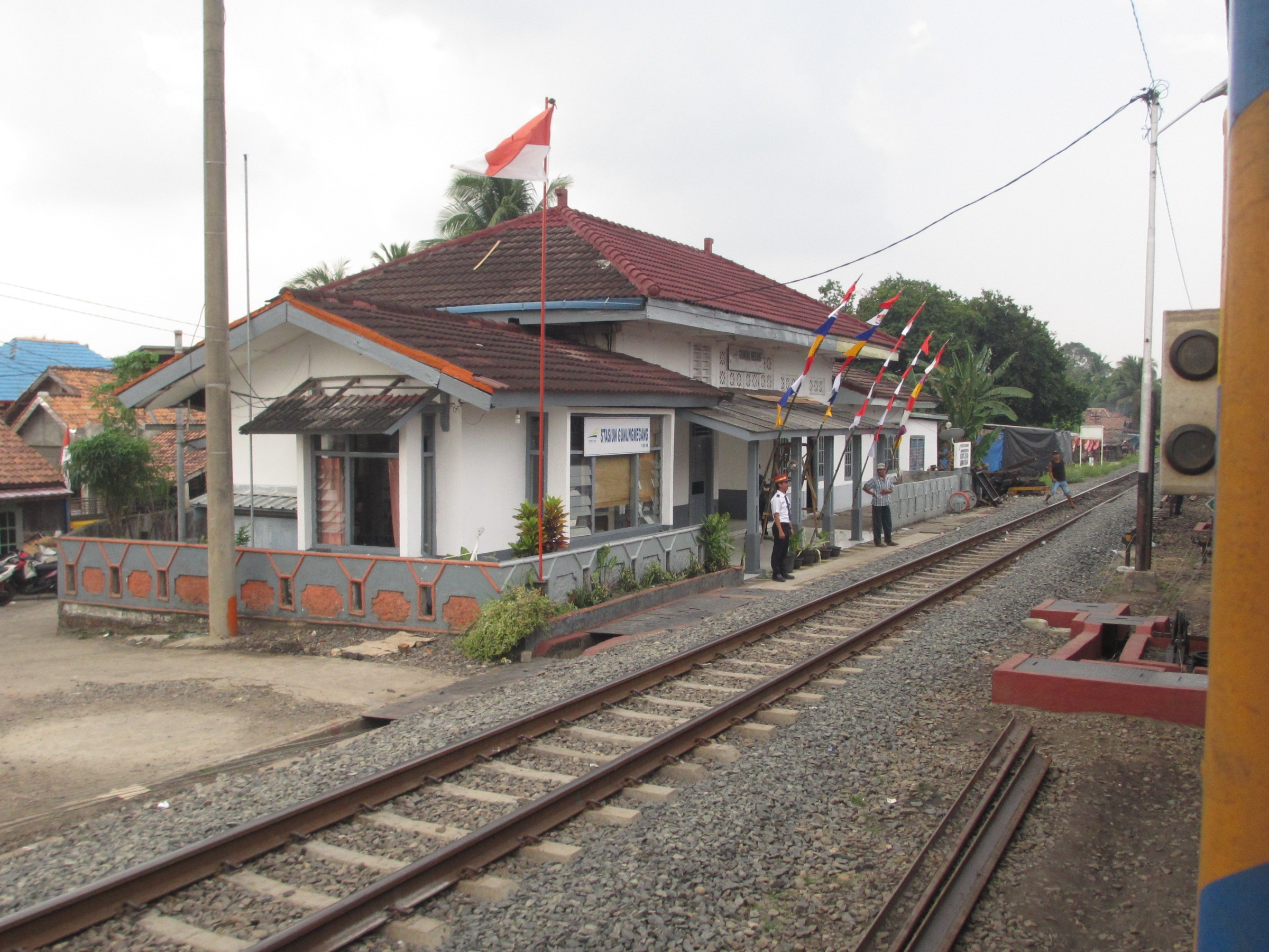 Gunungmegang Railway Station.